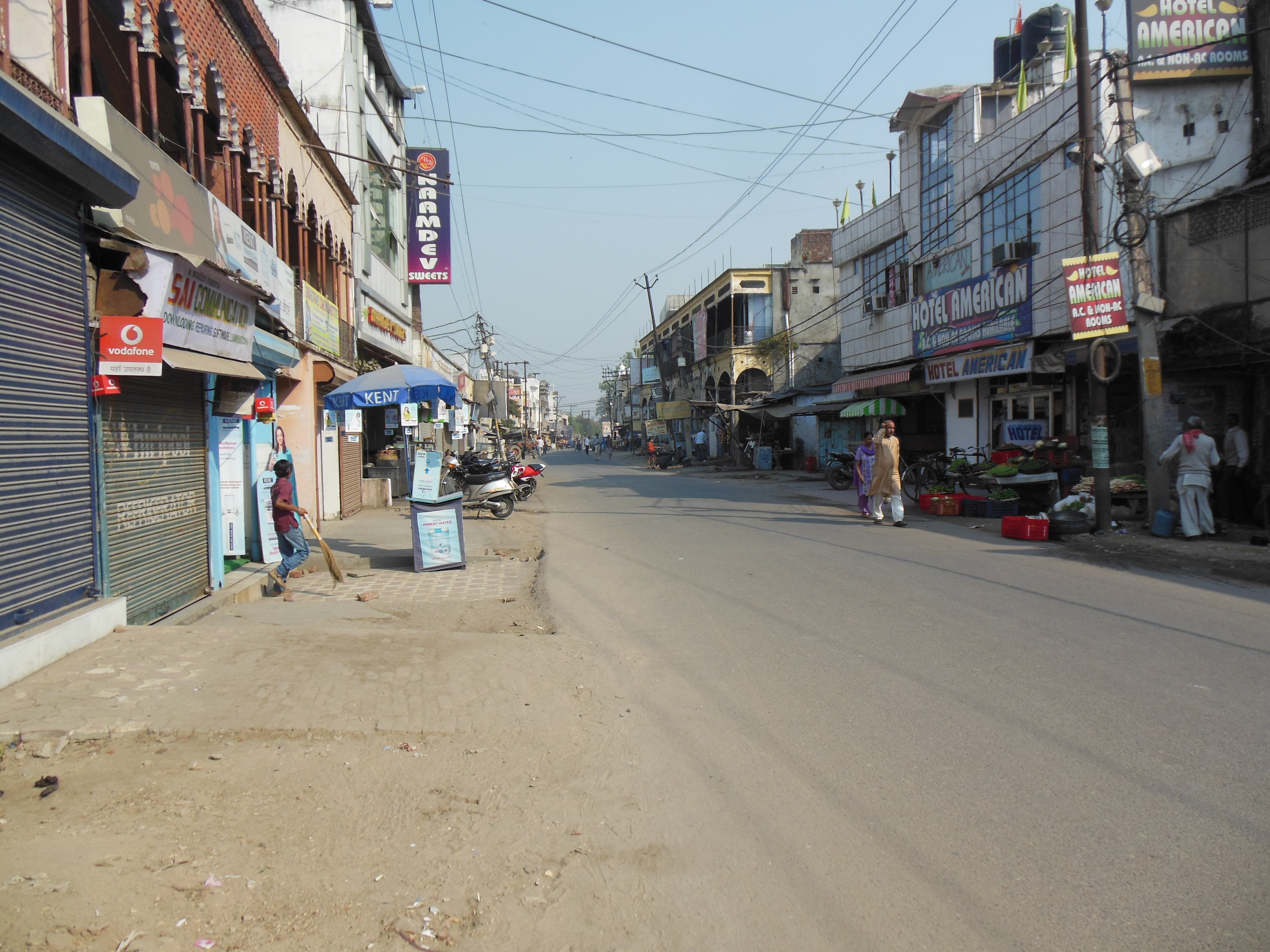 This is a photograph of Gurudwara Road, Saharanpur.